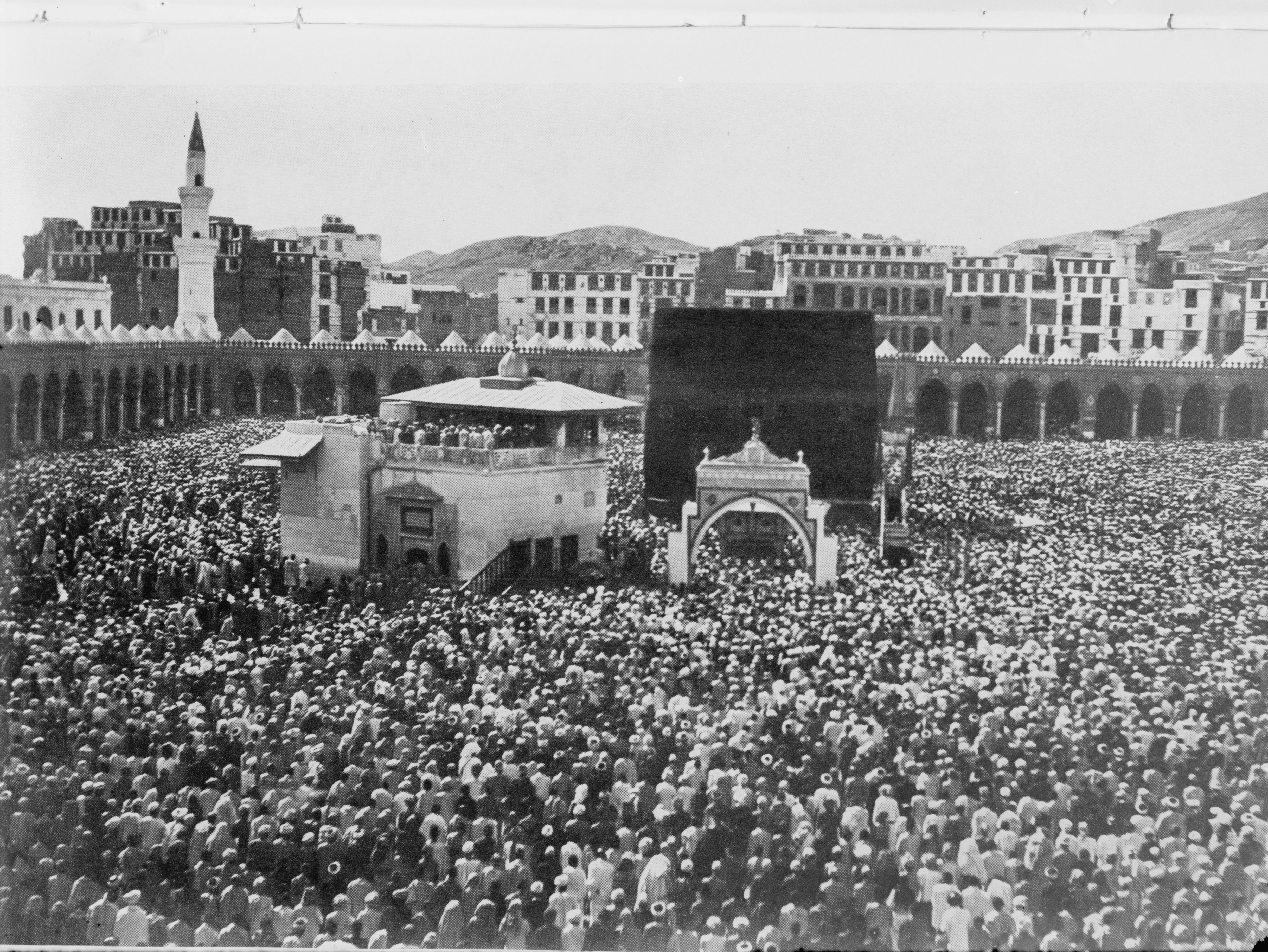 Attribution: " " Source: [1] TITLE: Mecca, ca. 1910. Bird's-eye view of Kaaba crowded w/pilgrims. CREATOR: American Colony. Photo Dept., photographer. PART OF: G. Eric and Edith Matson Photograph Collection.